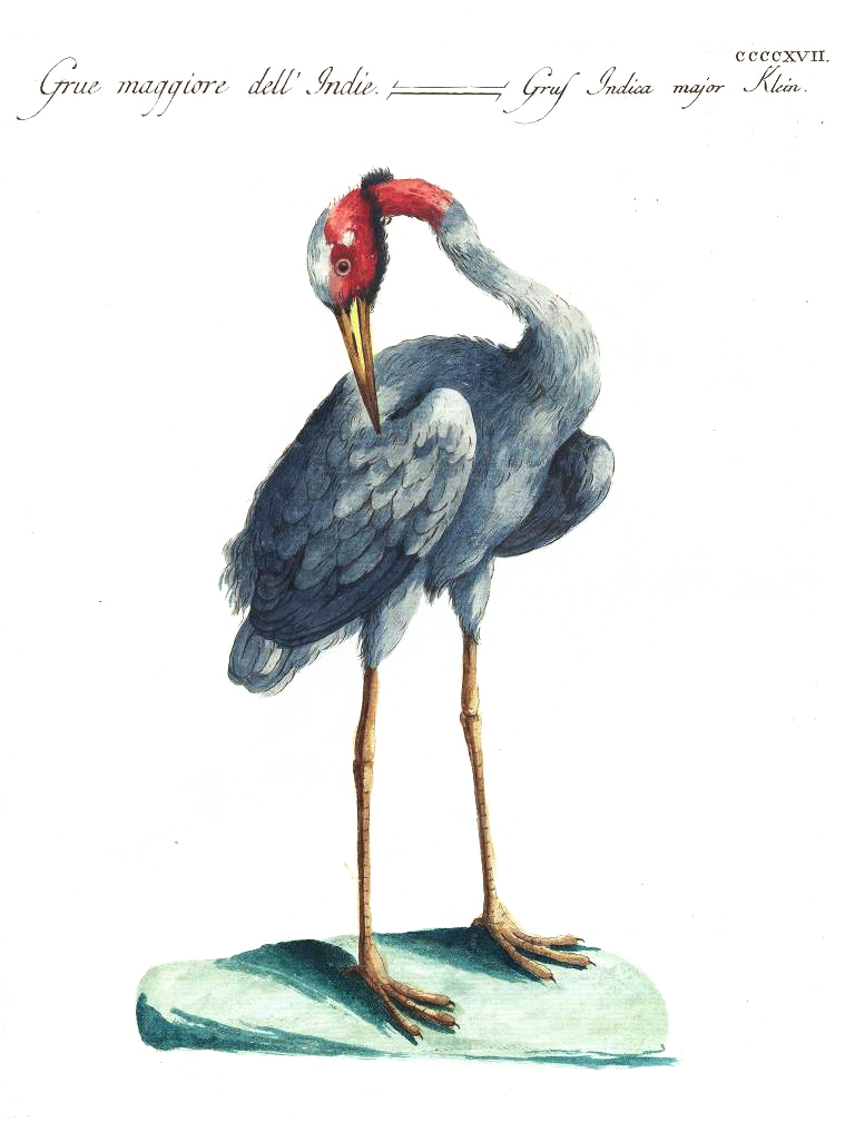 Sarus crane from Ornithologia methodice digesta by Saverio Manetti